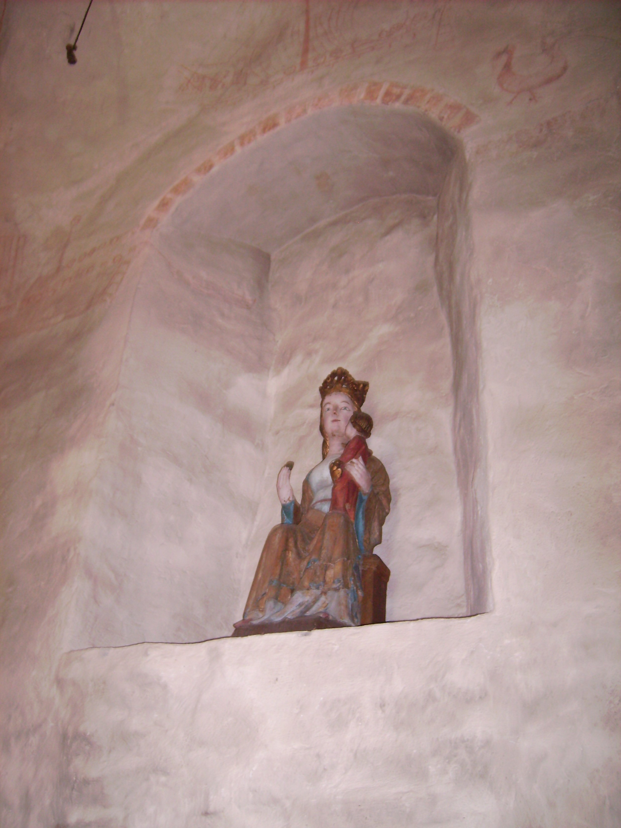 A statue in the medieval church in Korpo, Finland